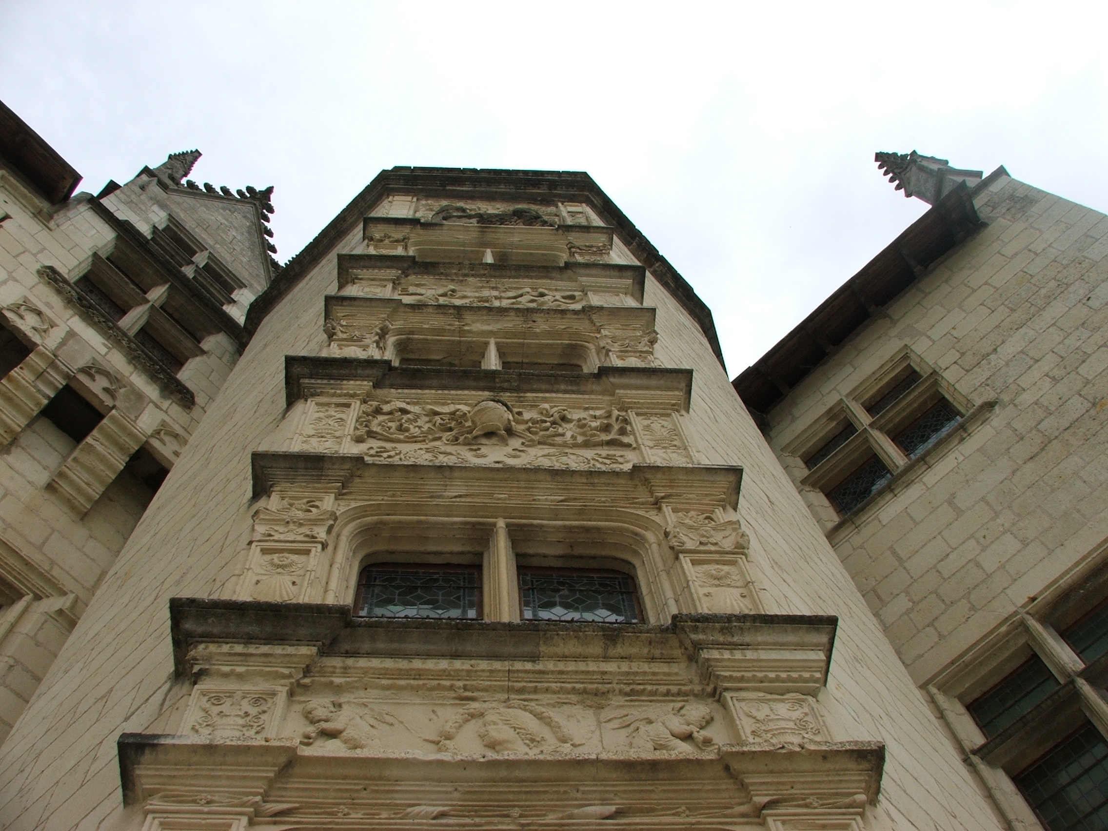 This building is en partie classé, en partie inscrit au titre des Monuments Historiques. It is indexed in the Base Mérimée, a database of architectural heritage maintained by the French Ministry of Culture, under the references IA49009670 and PA00109211 .